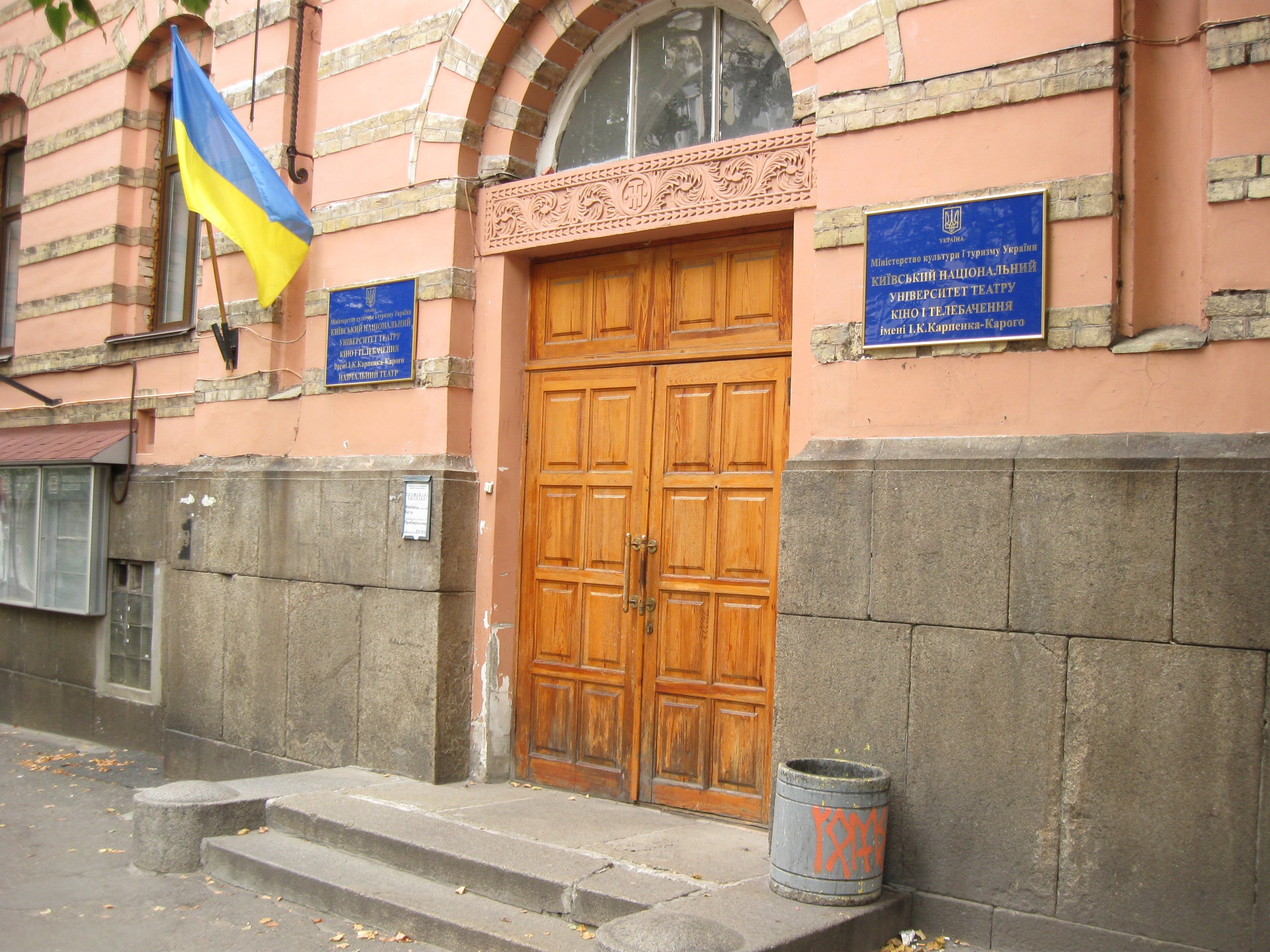 National University of Theatre, Film and TV in Kiev. 40, Yaroslaviv Val Street. Main entrance.